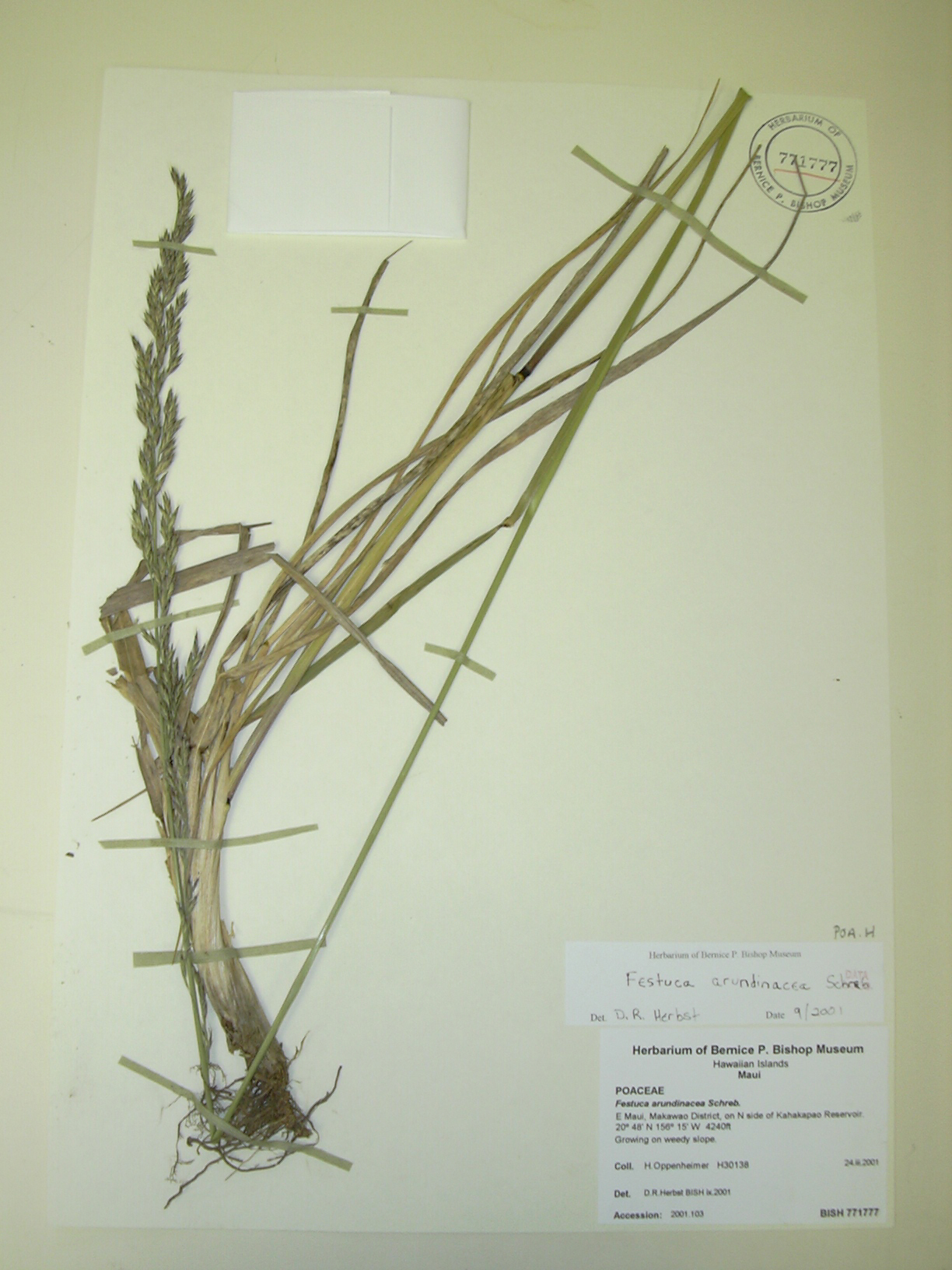 Festuca arundinacea (BISH specimen). Location: Maui, Piiholo